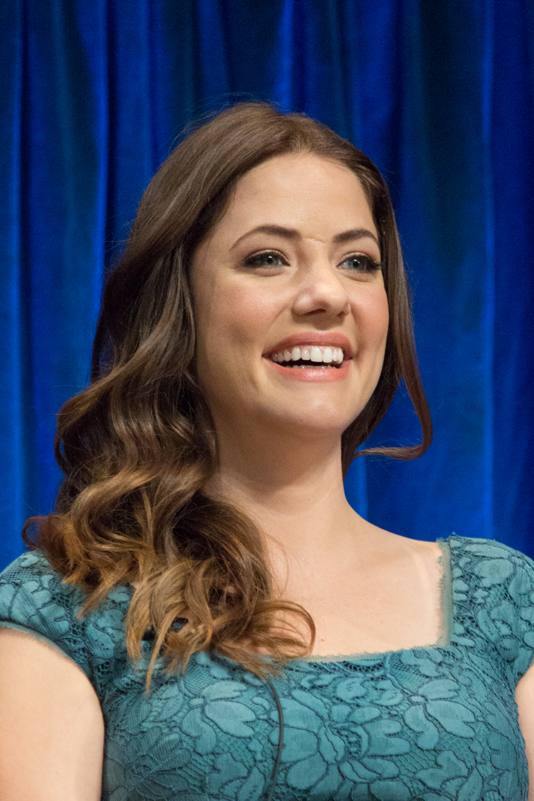 Julie Gonzalo at the PaleyFest 2013 forum on the TV show Dallas